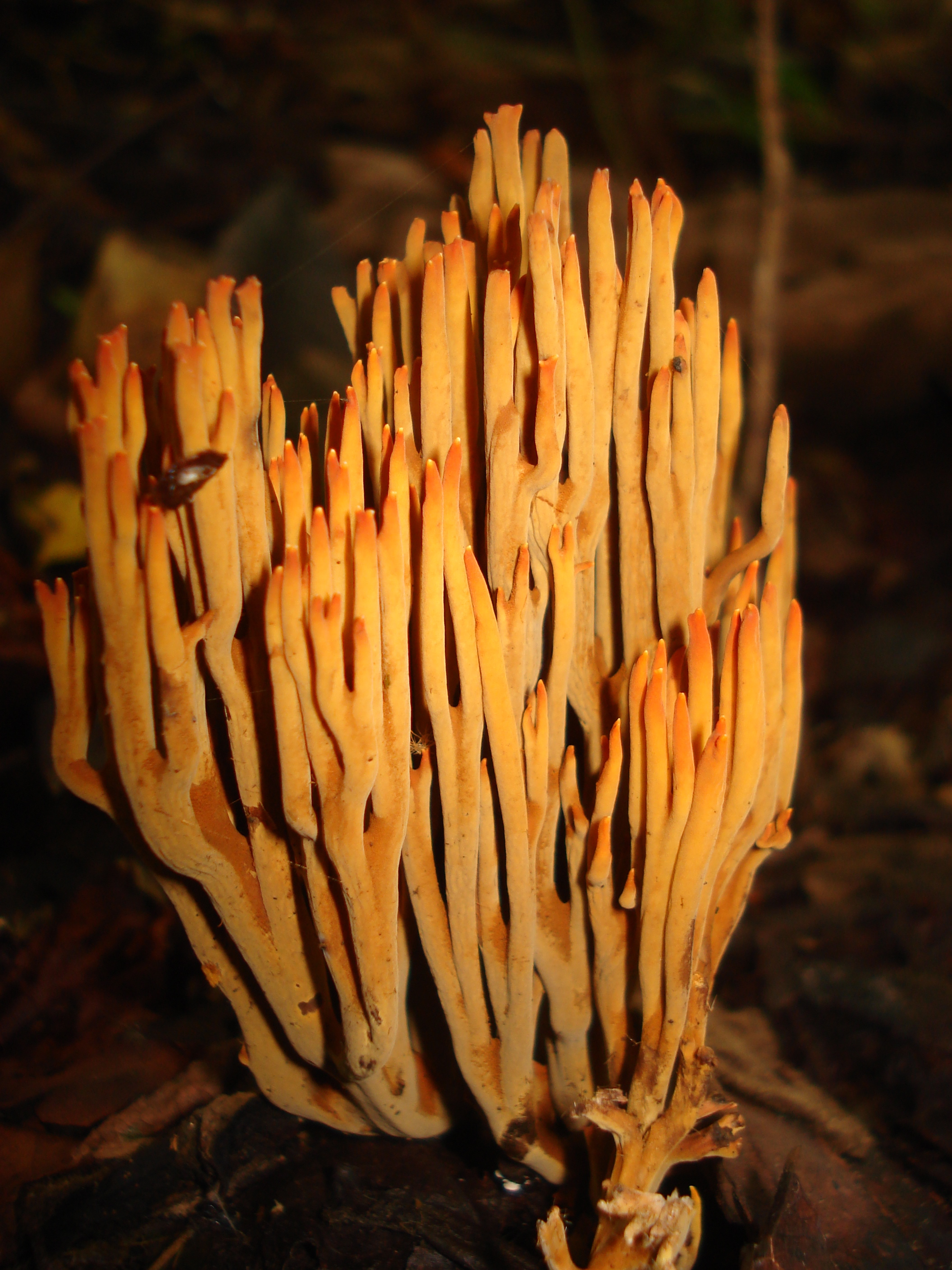 The coral fungus Ramaria cokeri R.H. Petersen. Photographed in Jardín Botanico Francisco Clavijero, Xalapa, Veracruz, Mexico.